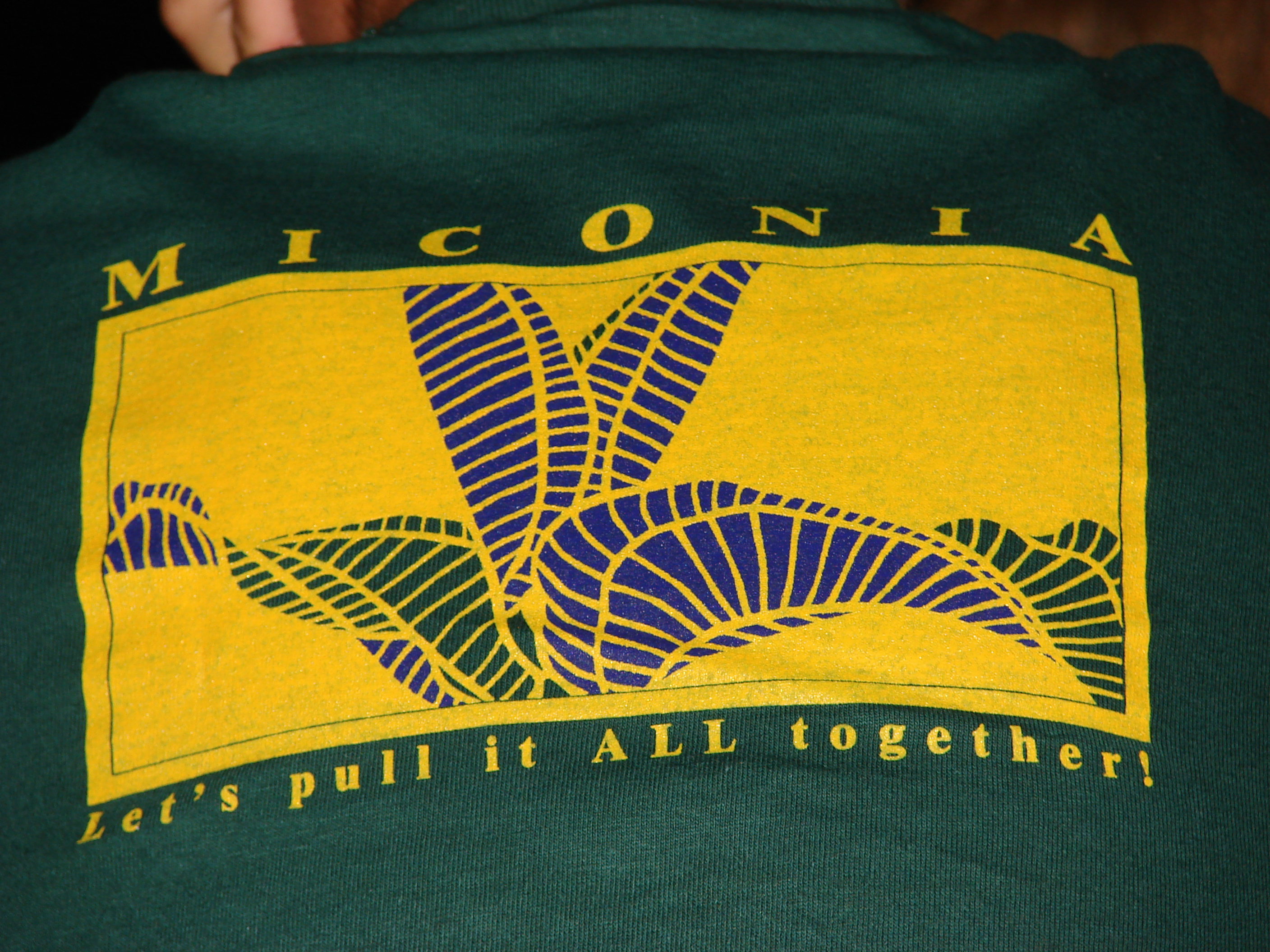 Miconia calvescens (Miconia) Leaves on teeshirt at Miconia conference at YMCA Keanae, Maui, Hawaii. May 06, 2009 #090506-7454 Image Use Policy Album 2009-05-a